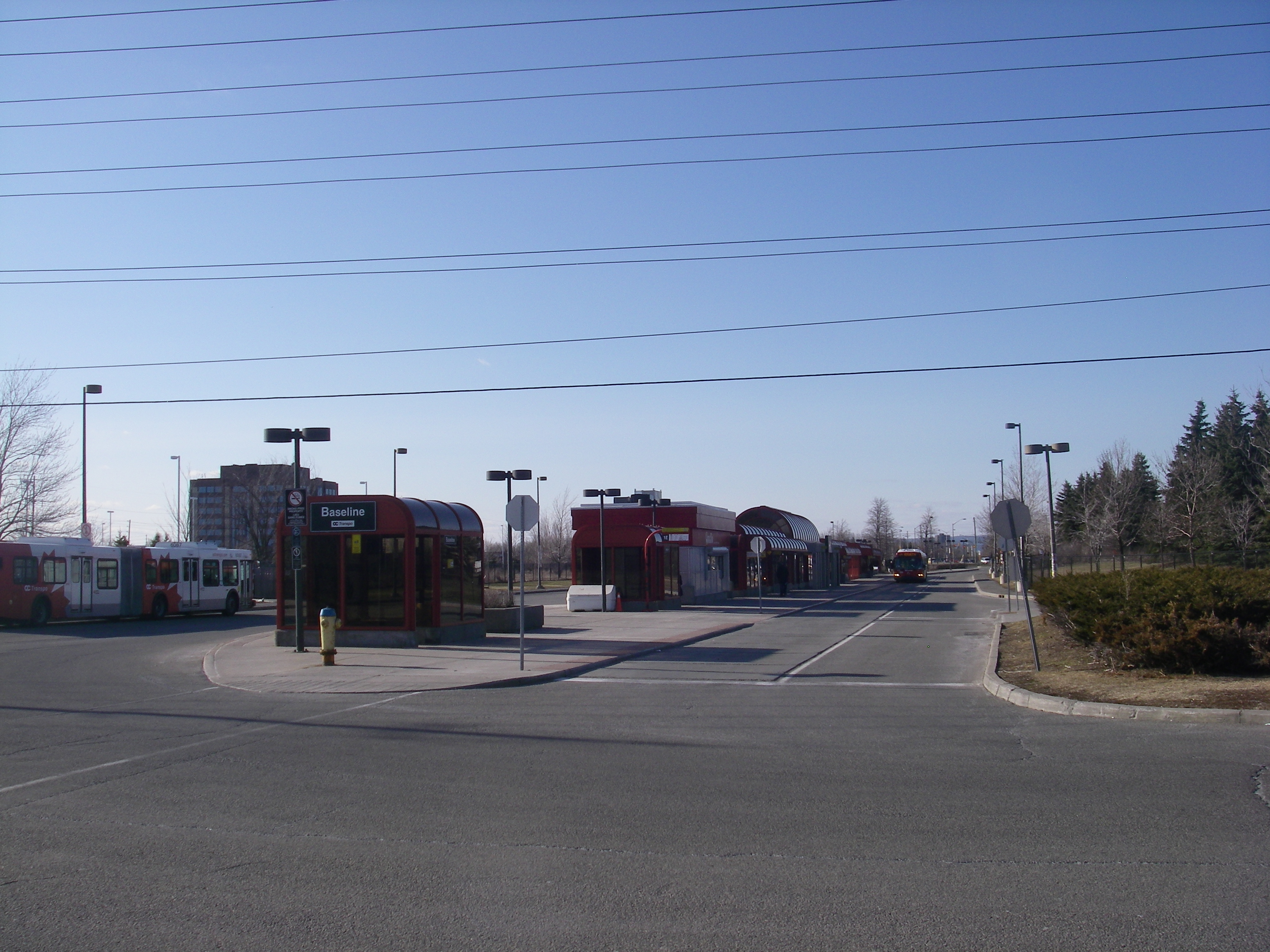 View of Ottawa, Ontario's Baseline transit station from the south-southeast in April 2009, prior to major renovations. Uploaded with PD license to facilitate cropping, adjustments, etc.